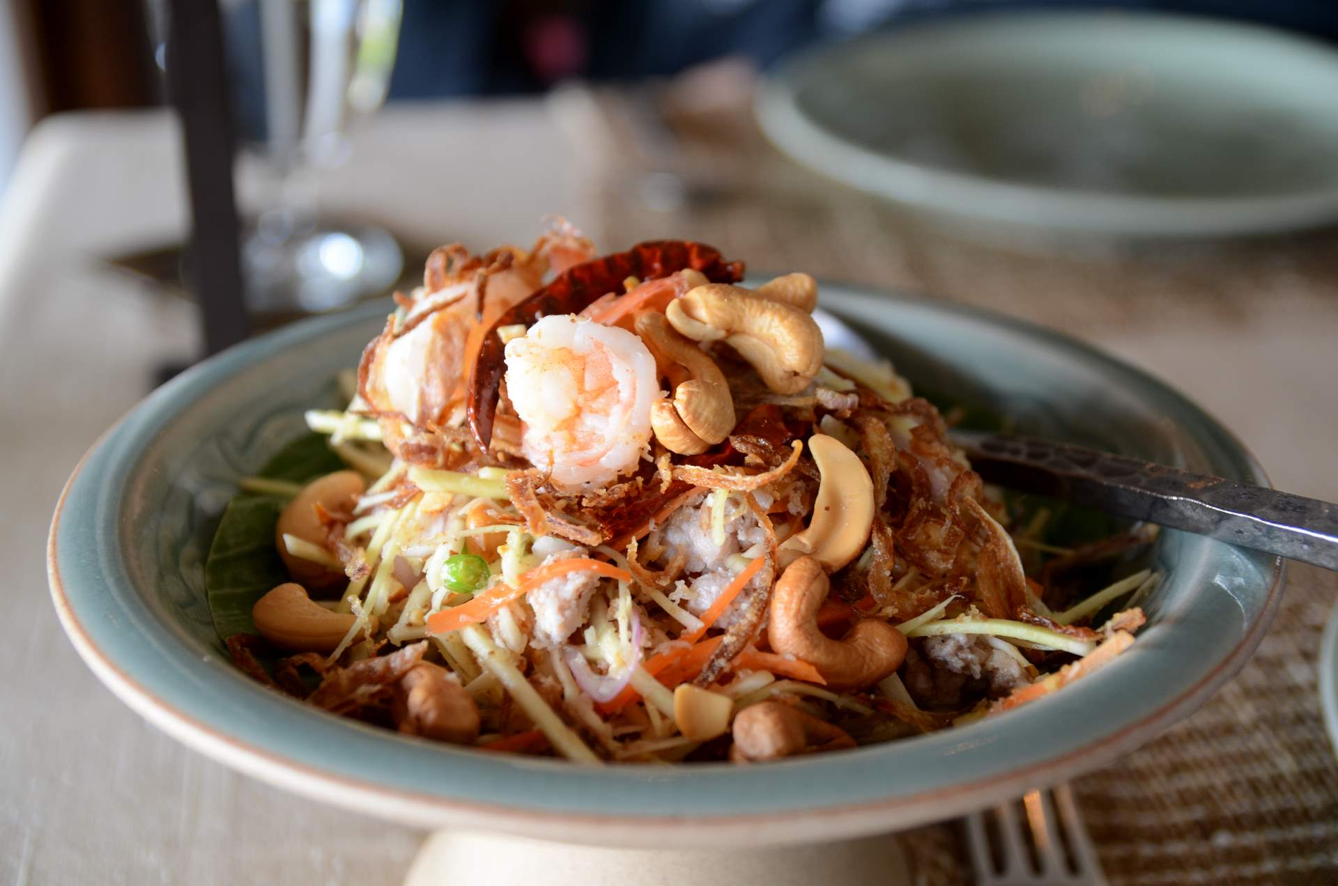 Yam khamin khao kung (Thai script: ยำขมิ้นขาวกุ้ง) is a Thai salad made with finely sliced (au Julienne) "white curcuma" (probably Curcuma zedoaria), shredded coconut, cooked prawns, sliced shallots, dried chillies, fresh green Bird's eye chillies, roasted cashew nuts, and crispy fried onion rings. The dressing is the standard Thai dressing for yam (salads): pounded raw garlic, lime juice, green bird's eye chillies, fish sauce, sugar, and salt.